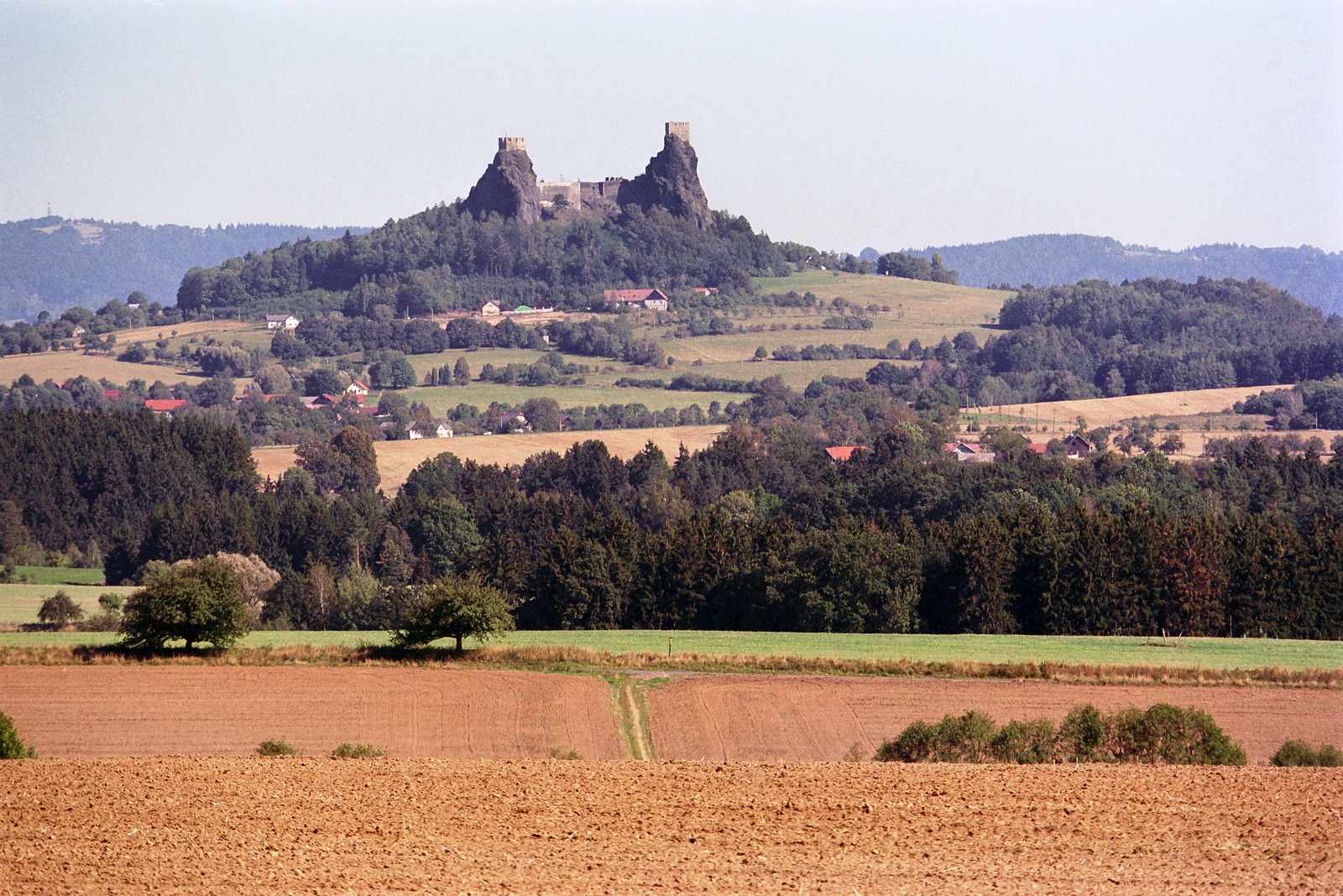 Castle Trosky in Czech Republic/ Burg Trosky picture taken by me in summer 2004 licensed by me as GFDL